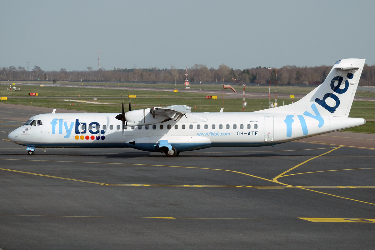 Flybe Nordic, OH-ATE, ATR 72-500